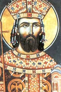 Fresco of Prince Lazar Hrebeljanović in the Ravanica Monastery, Serbia